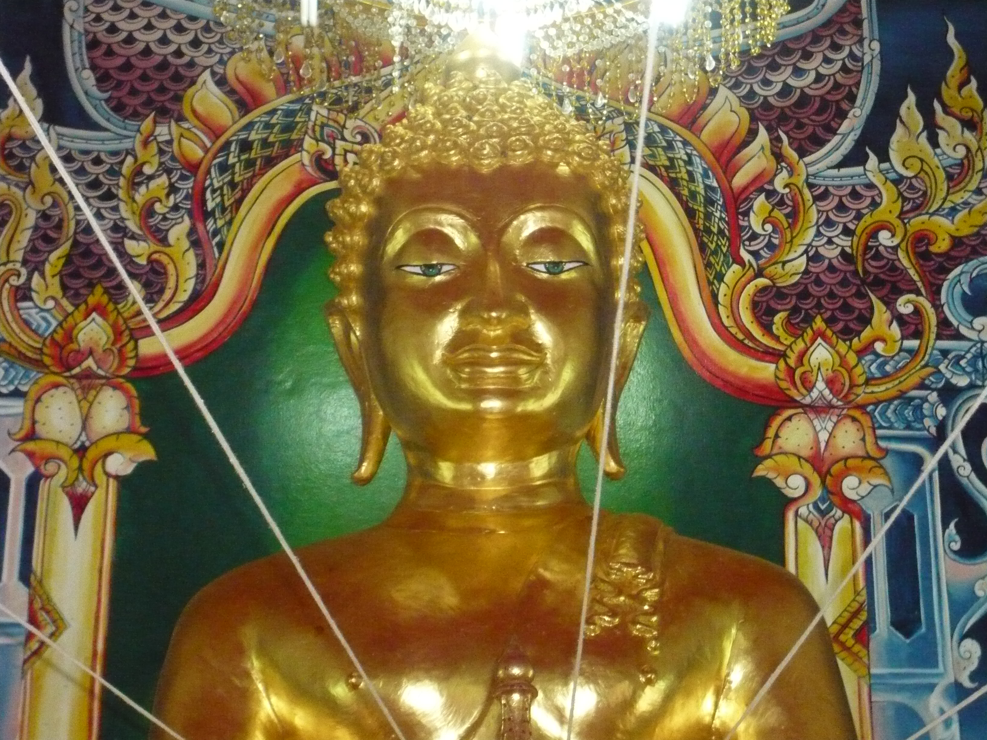 Wat Kong Din, Moo 2, Tambon Kong Din, Amphoe Klaeng, Rayong, 22160